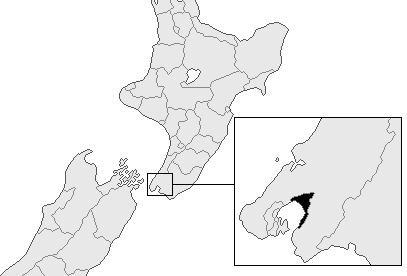 The boundaries for the Hutt electorate in relation to the rest of New Zealand (1928-38).